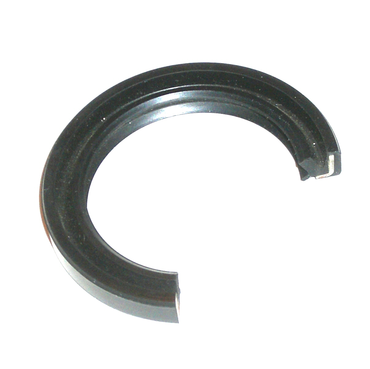 Oilseal about 5cm in diameter